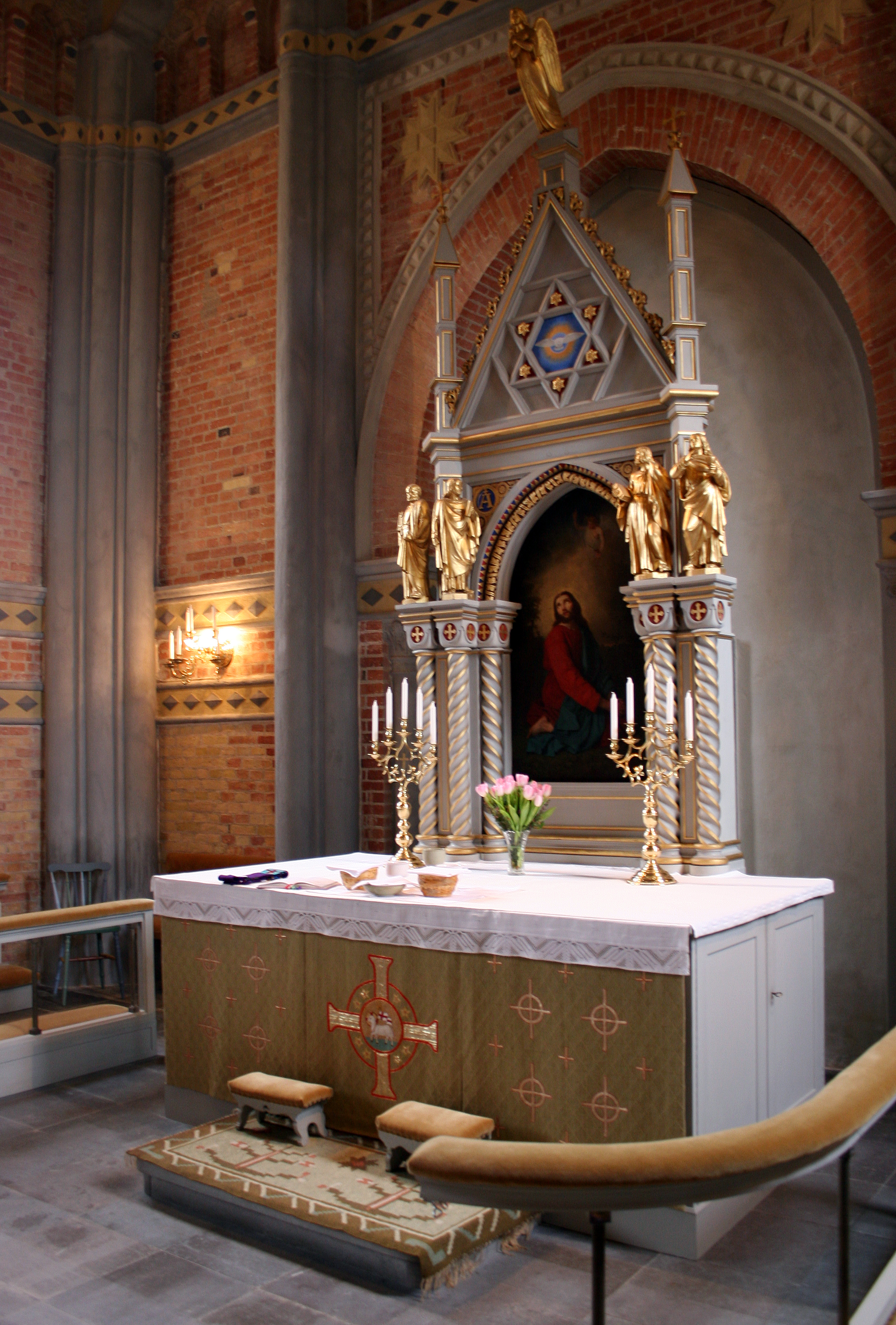 The sanctuary of Borlunda kyrka in Eslöv Municipality, Sweden.